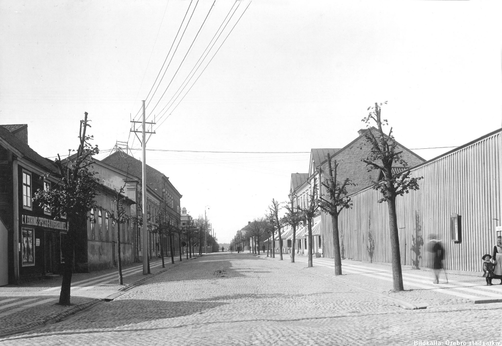 The street Kungsgatan in the city center of Örebro, Sweden